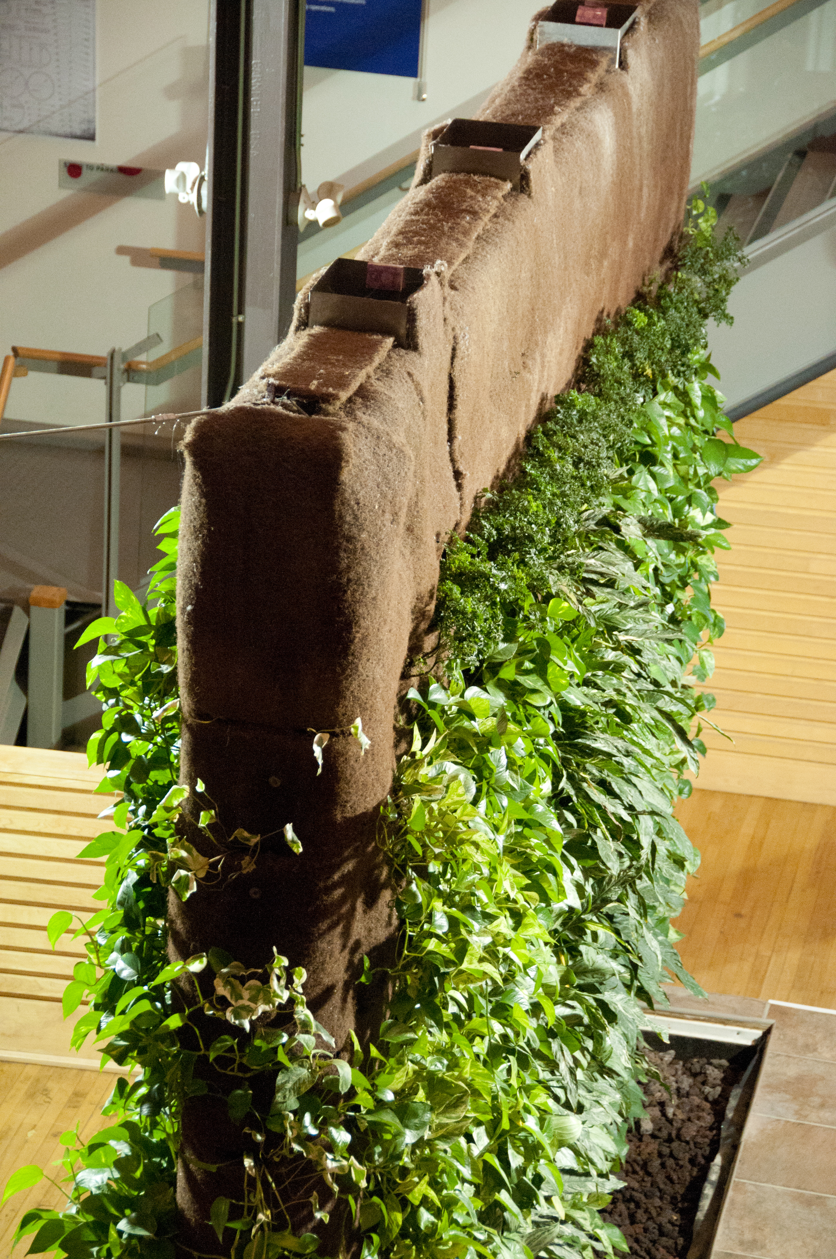 A green wall or living wall on display at the children's museum in Kitchener, Ontario, Canada (The Museum).